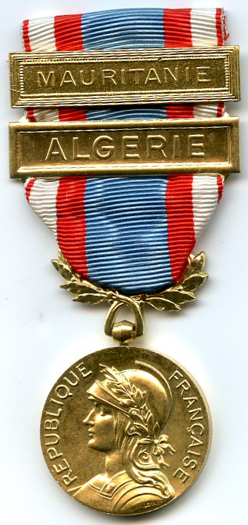 Nord African Security and Order Operations Commemorative Medal (France) - Obverse